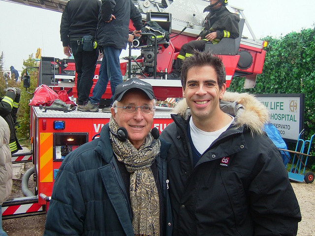 Ruggero Deodato and Eli Roth on the set of a television show in Italy Deodoato was directing. This photo was Roth's first meeting with Deodato, on the "Hostel" press tour in Italy in February 2006.